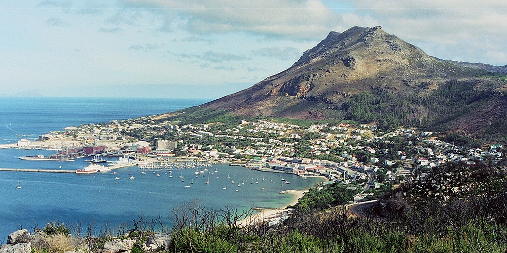 Picture of Simon's Town, South Africa. Includes Naval base facilities. Picture by Henry Trotter. The author releases it to the public domain.